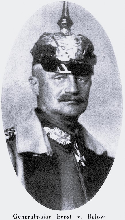 prussain major general Ernst von Below